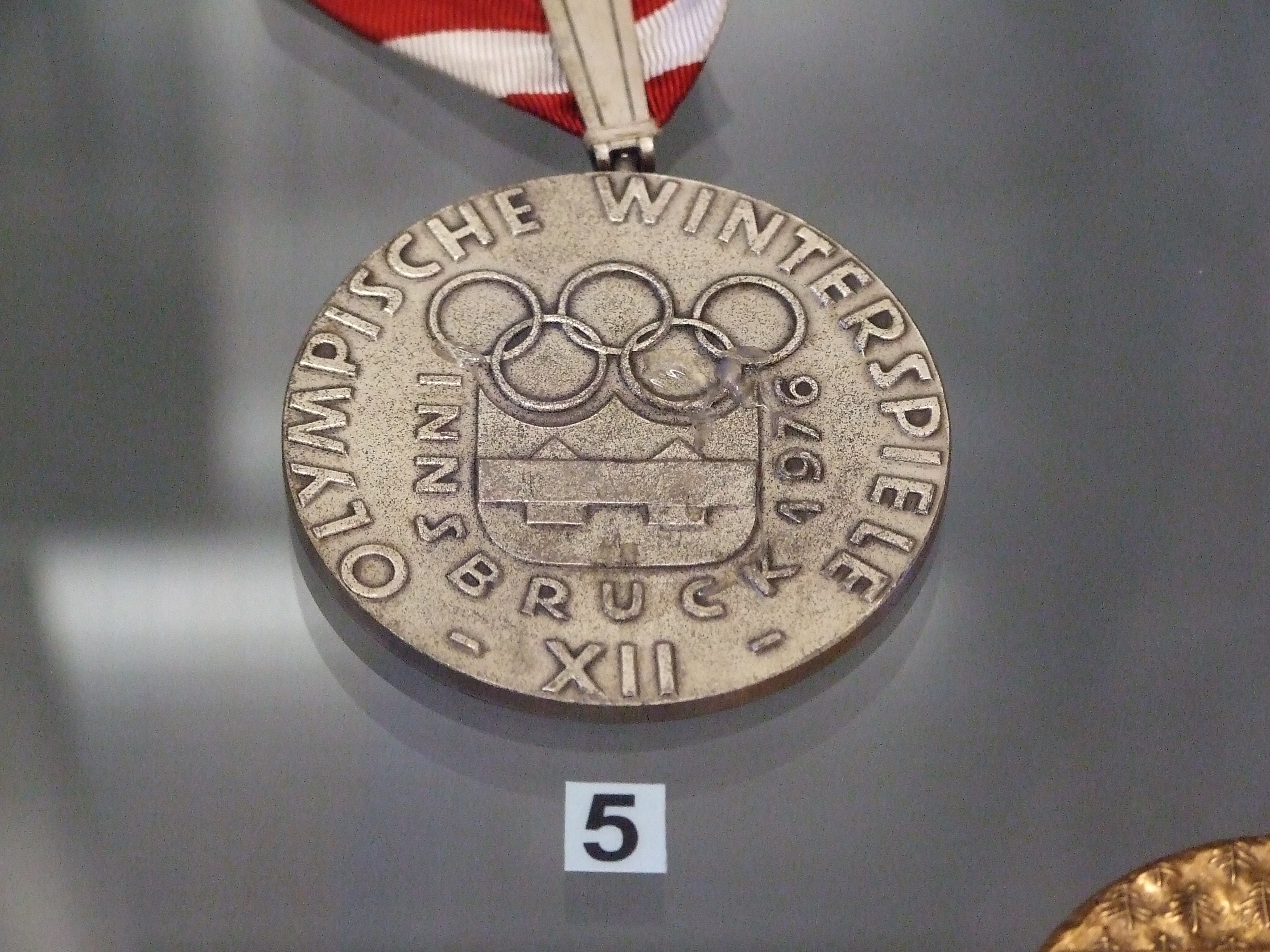 One Century Of Czech Ice Hockey Exhibition, National Museum in Prague: [1]